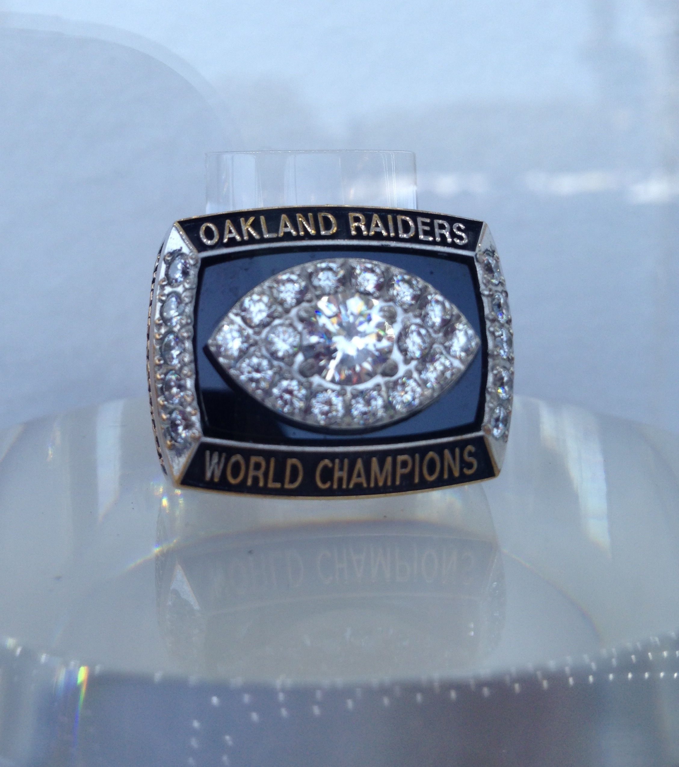 Draft Town, Chicago 5/2/2015